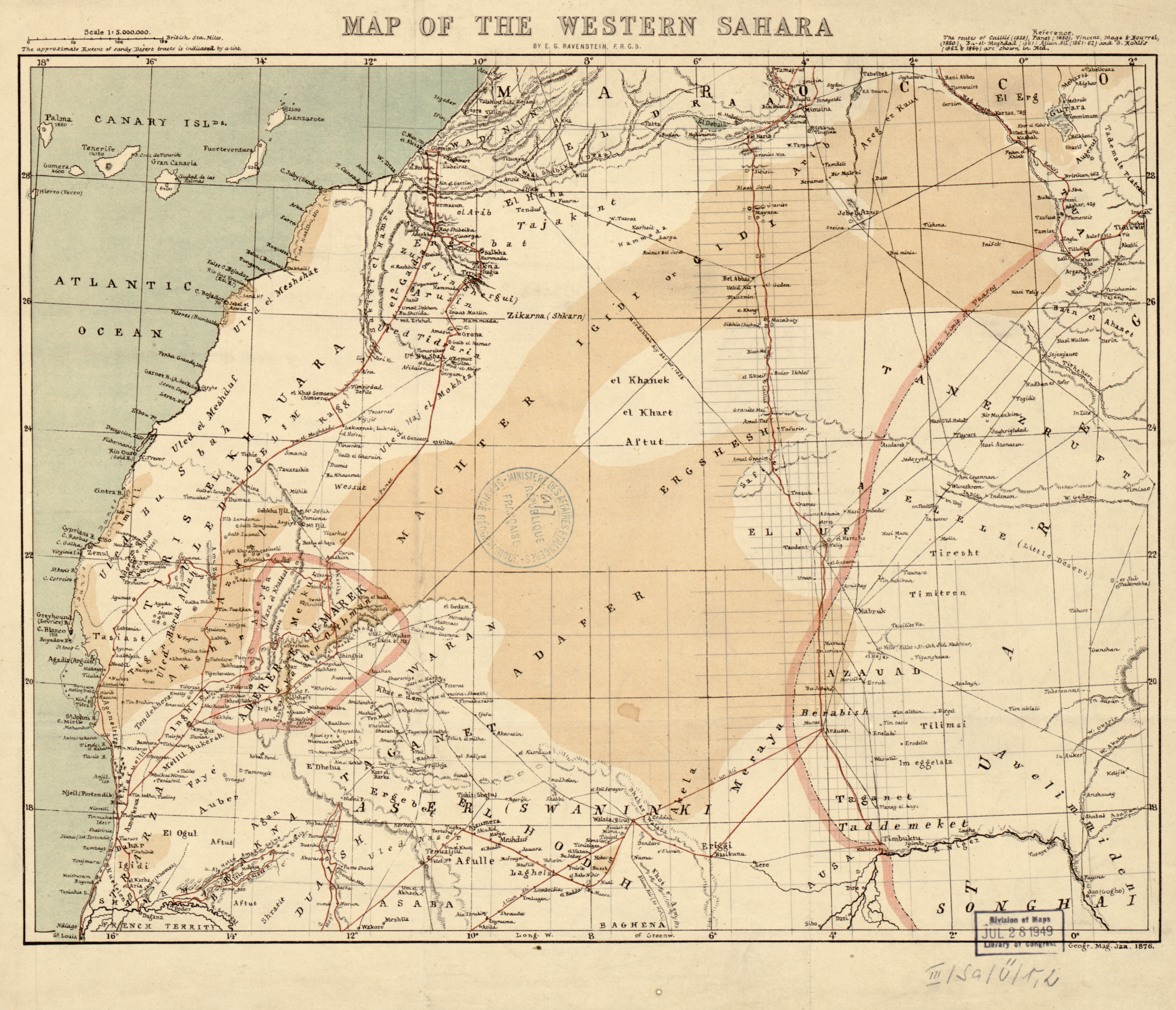 precolonial map of the western part of the Sahara